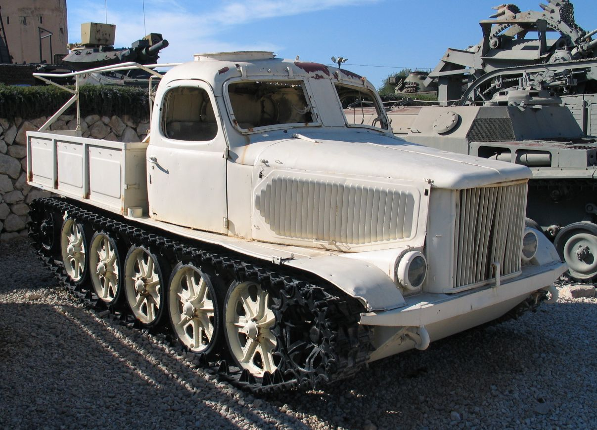 Description: Soviet AT-L light artillery tractor in Yad la-Shiryon Museum, Israel. 2005. Source: Photo by me, User:Bukvoed